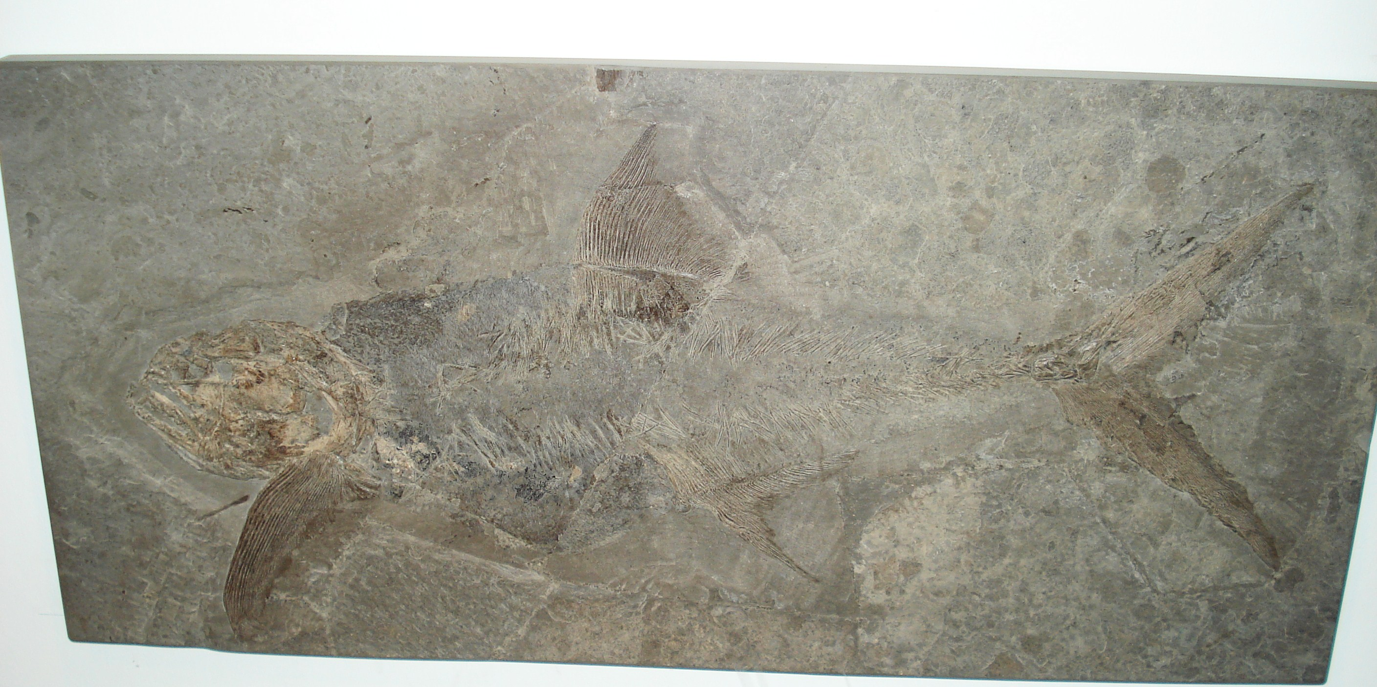 fossil of saurostomus